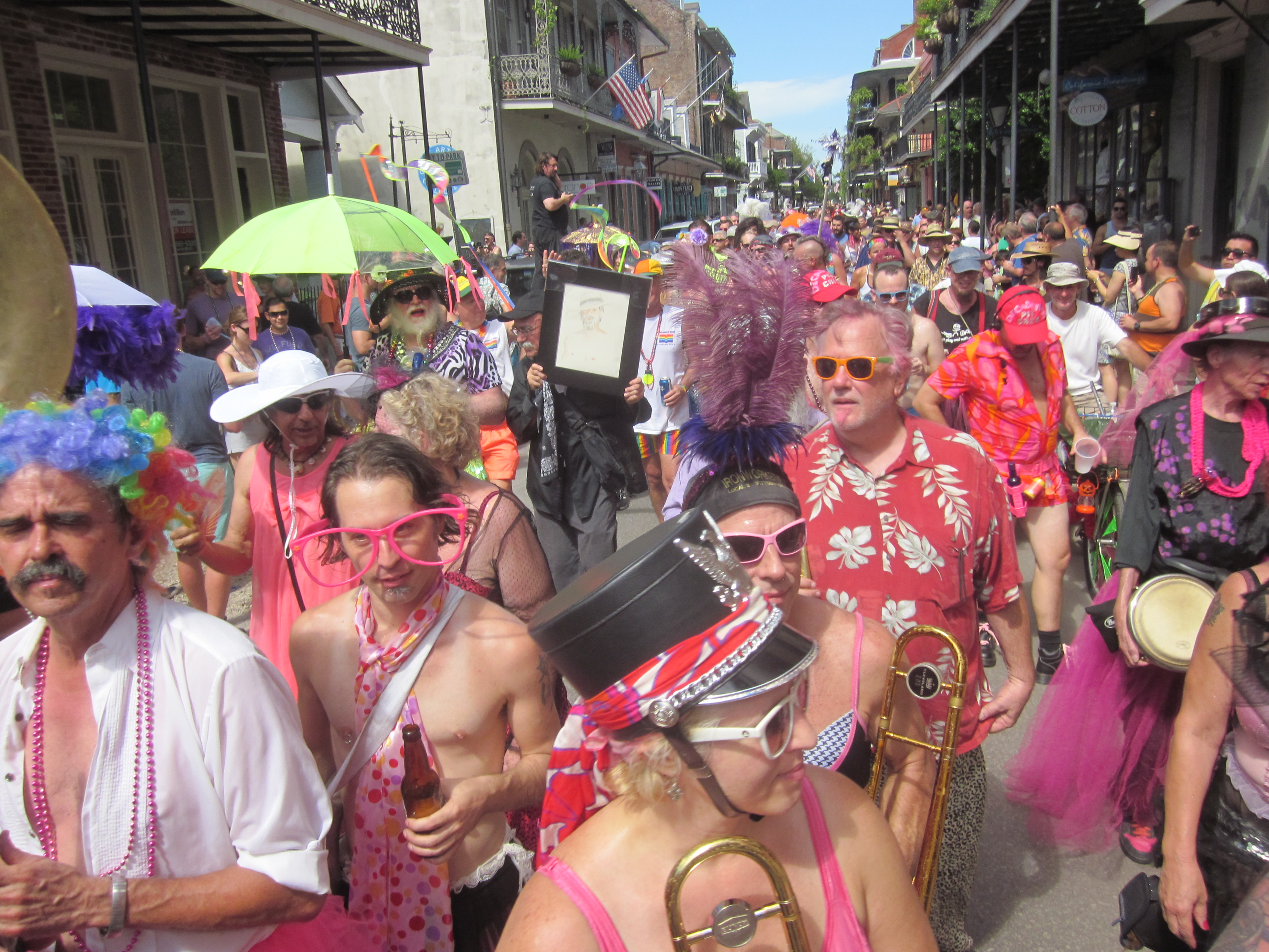 Southern Decadence celebrations in the French Quarter, New Orleans.